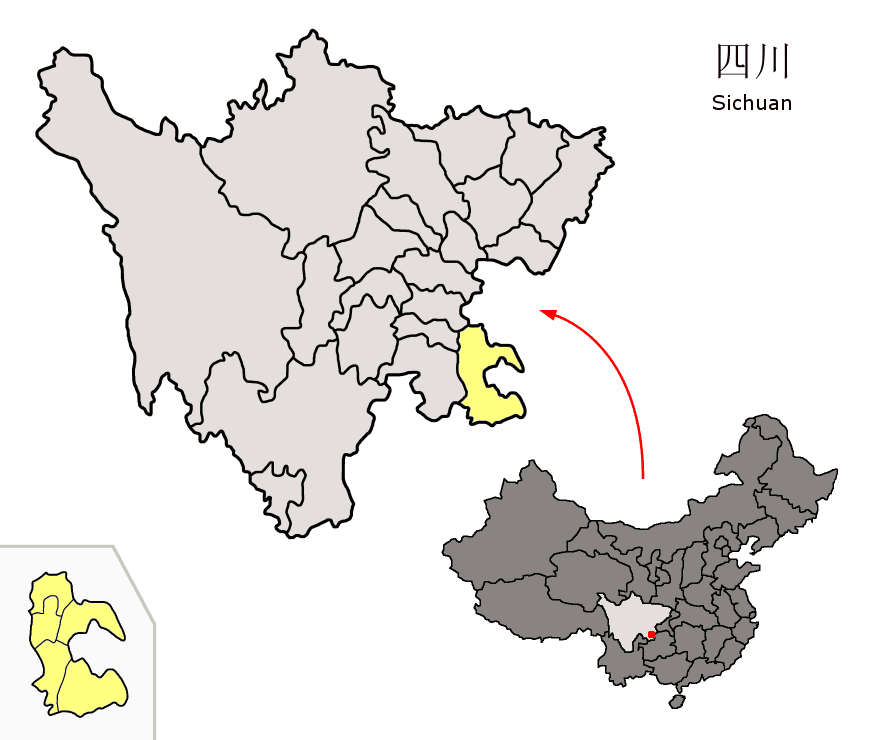 Location of Luzhou Prefecture (yellow) within Sichuan province of China Map drawn in october 2007 using various sources, mainly : Sichuan province administrative regions GIS data: 1:1M, County level, 1990 Sichuan Counties map from